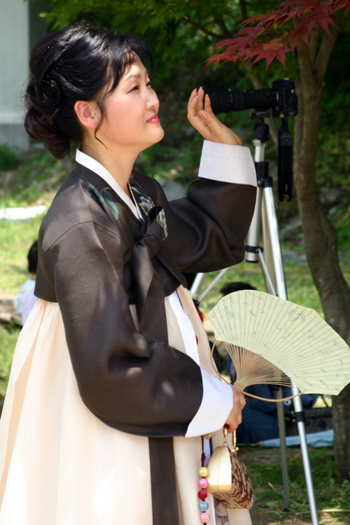 "The 5th Women Folk Plays for Dano Festival" held in a yard of the Andong Folk Museum in Andong City, Gyeongsangbuk-do, South Korea on June 11, 2007.